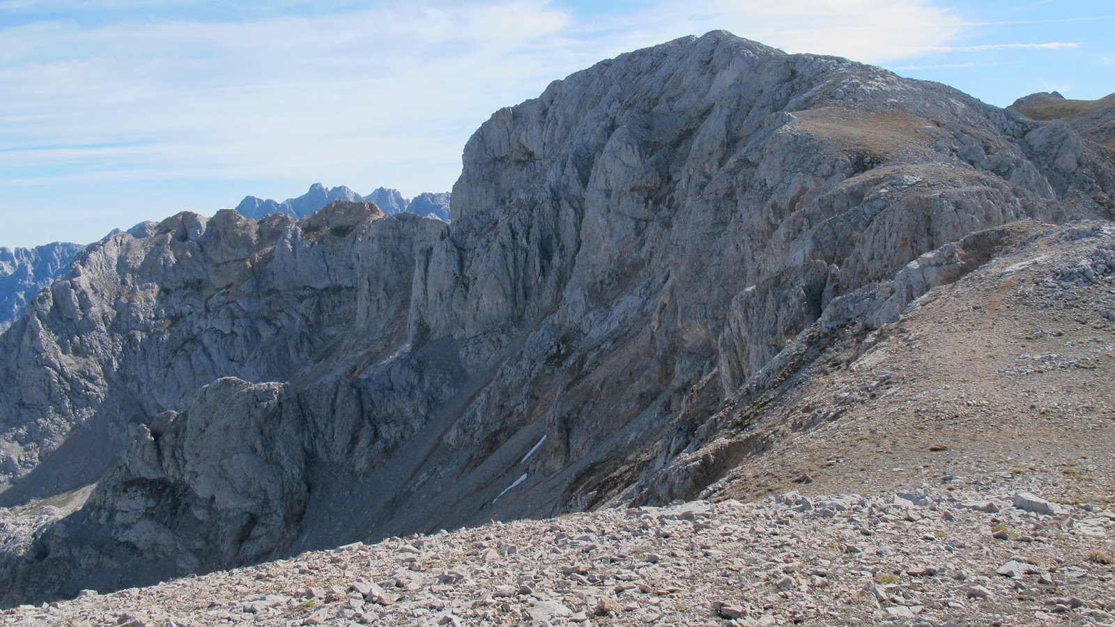 Torre Bermeja, El Cornion, Picos de Europa, Asturias, Spain